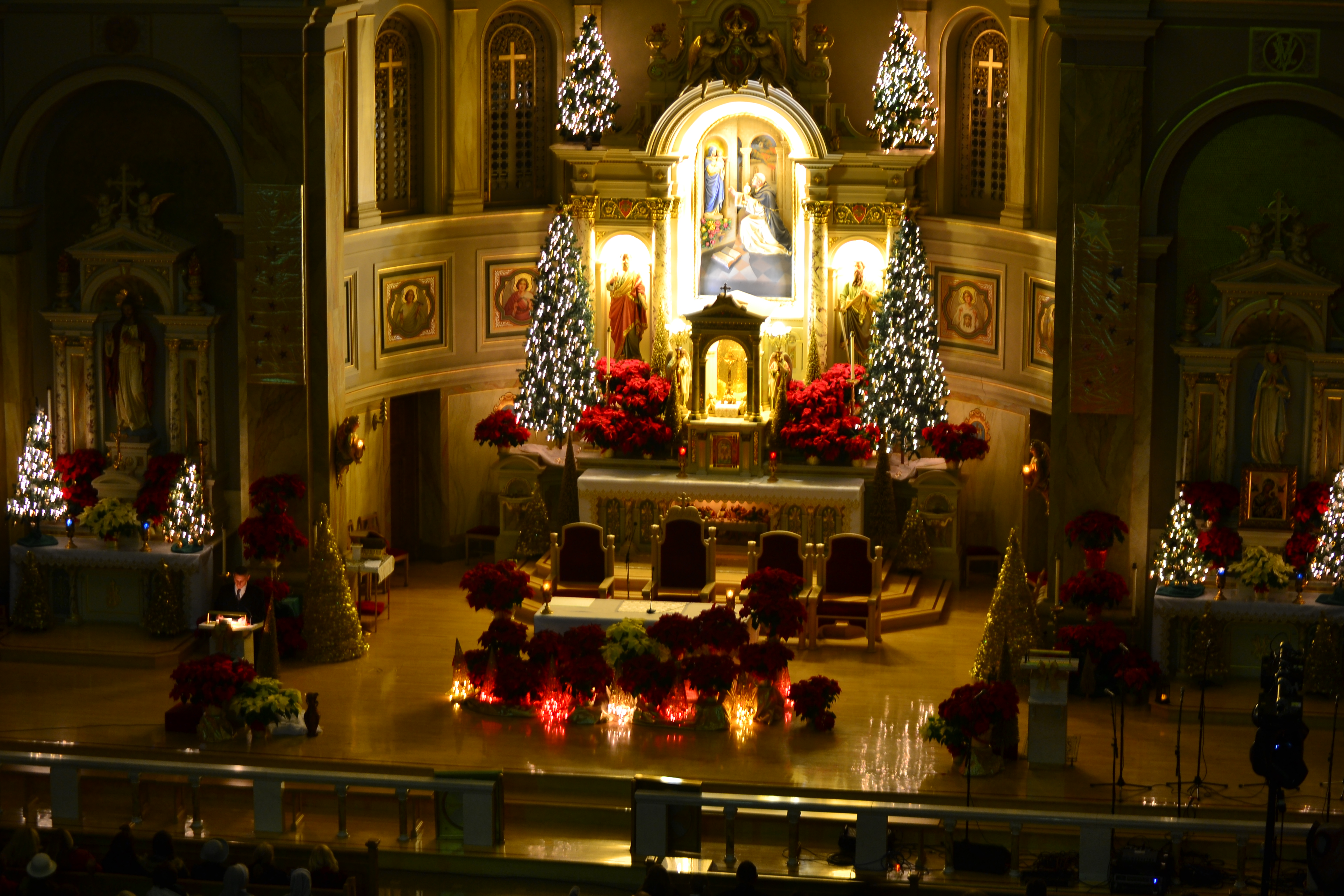 St. Hyacinth Basilica - Christmas Mass